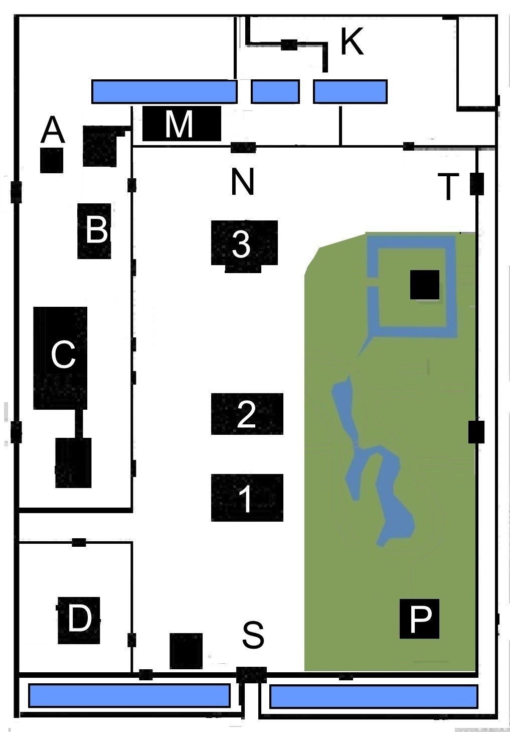 Layout of To-ji